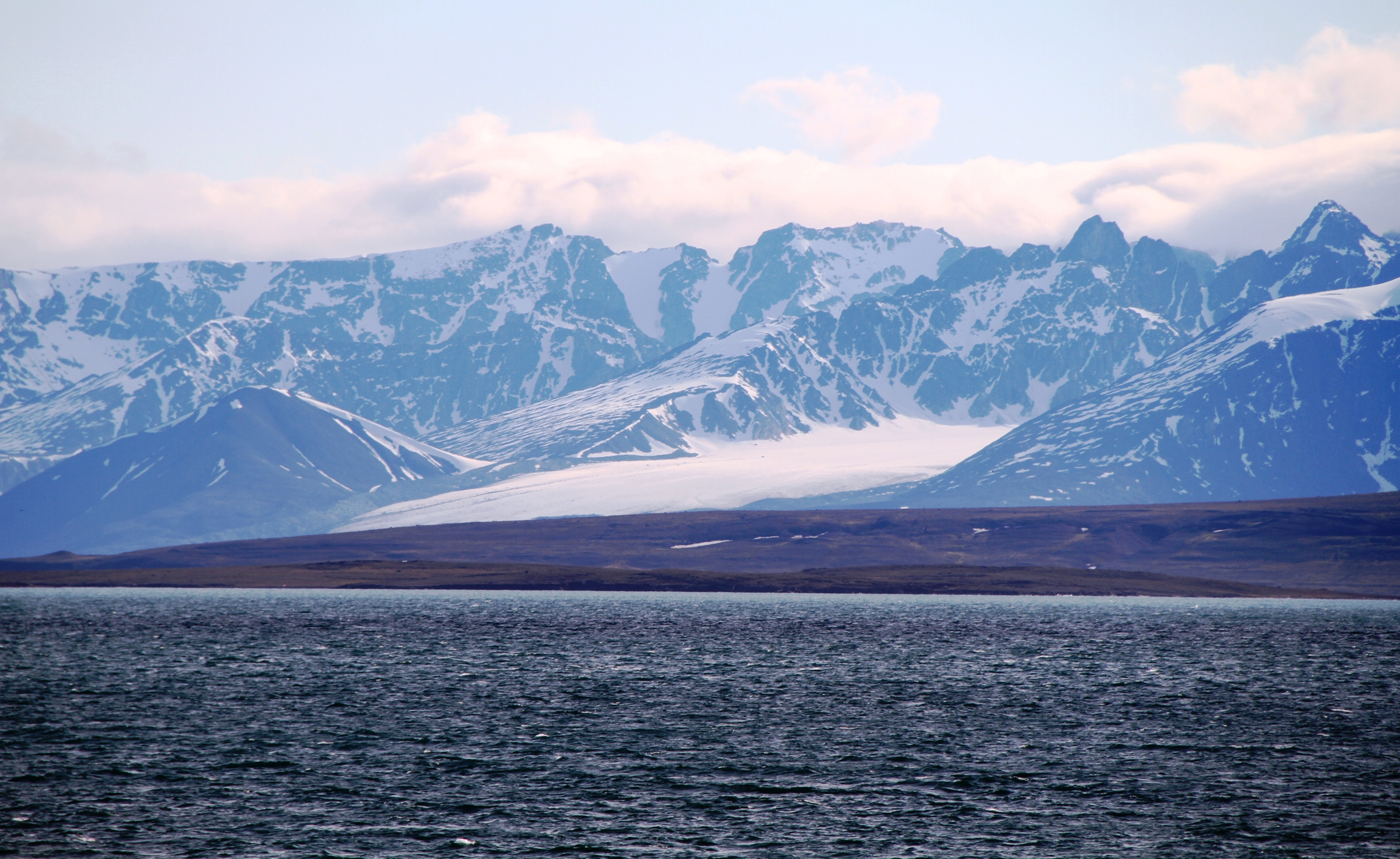 Photo from northeastern Haakon VII Land, on northern Spitsbergen. The western basin of the Woodfjorden area.